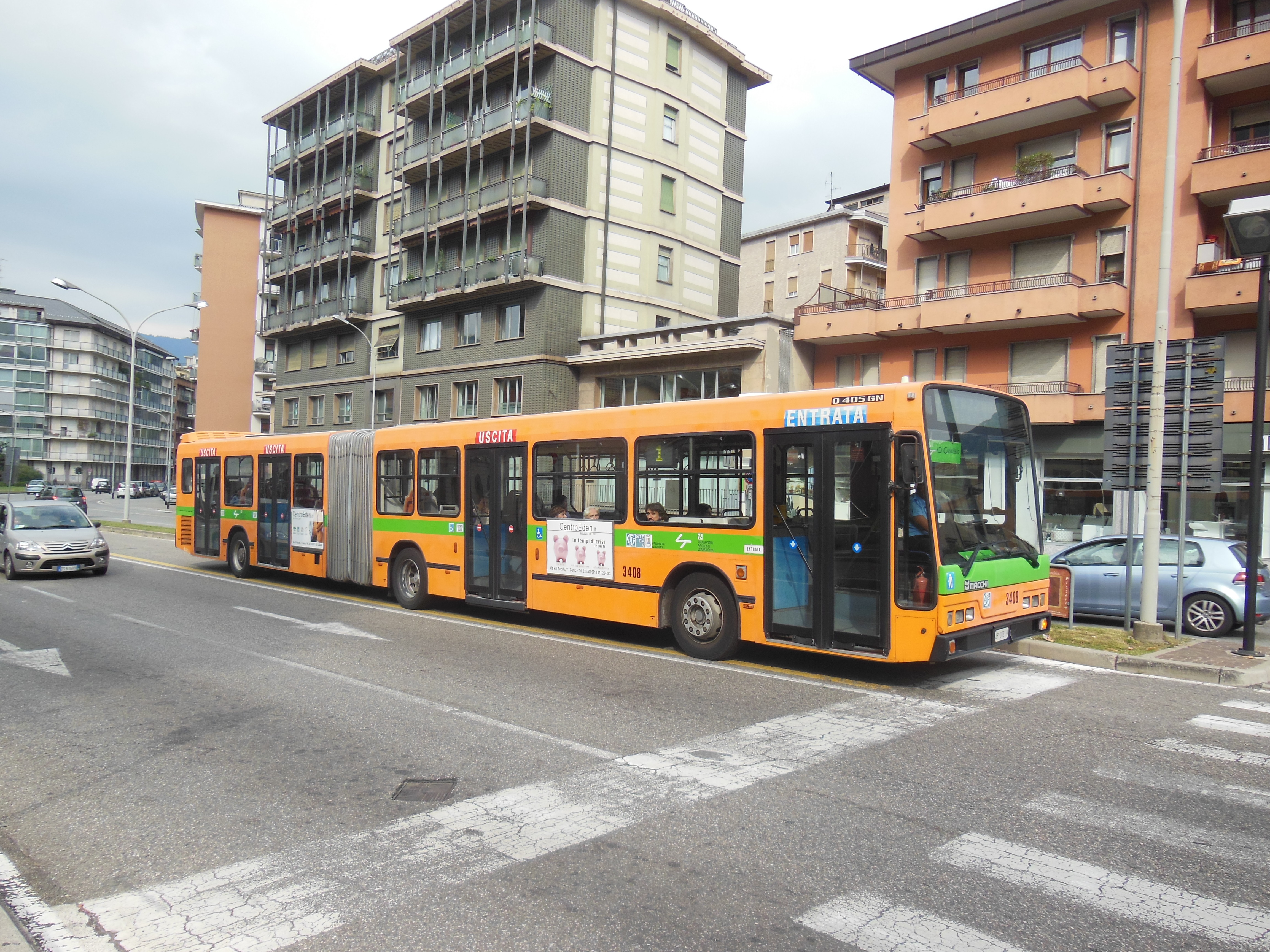 An ASF Autolinee city bus in the city of Como. For more information, see wikipedia article ASF Autolinee.